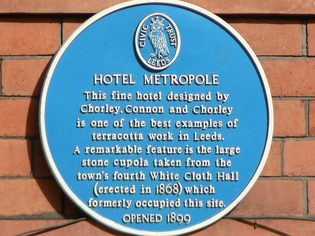 Blue Plaque, The Metropole, King Street, Leeds. See also 201917